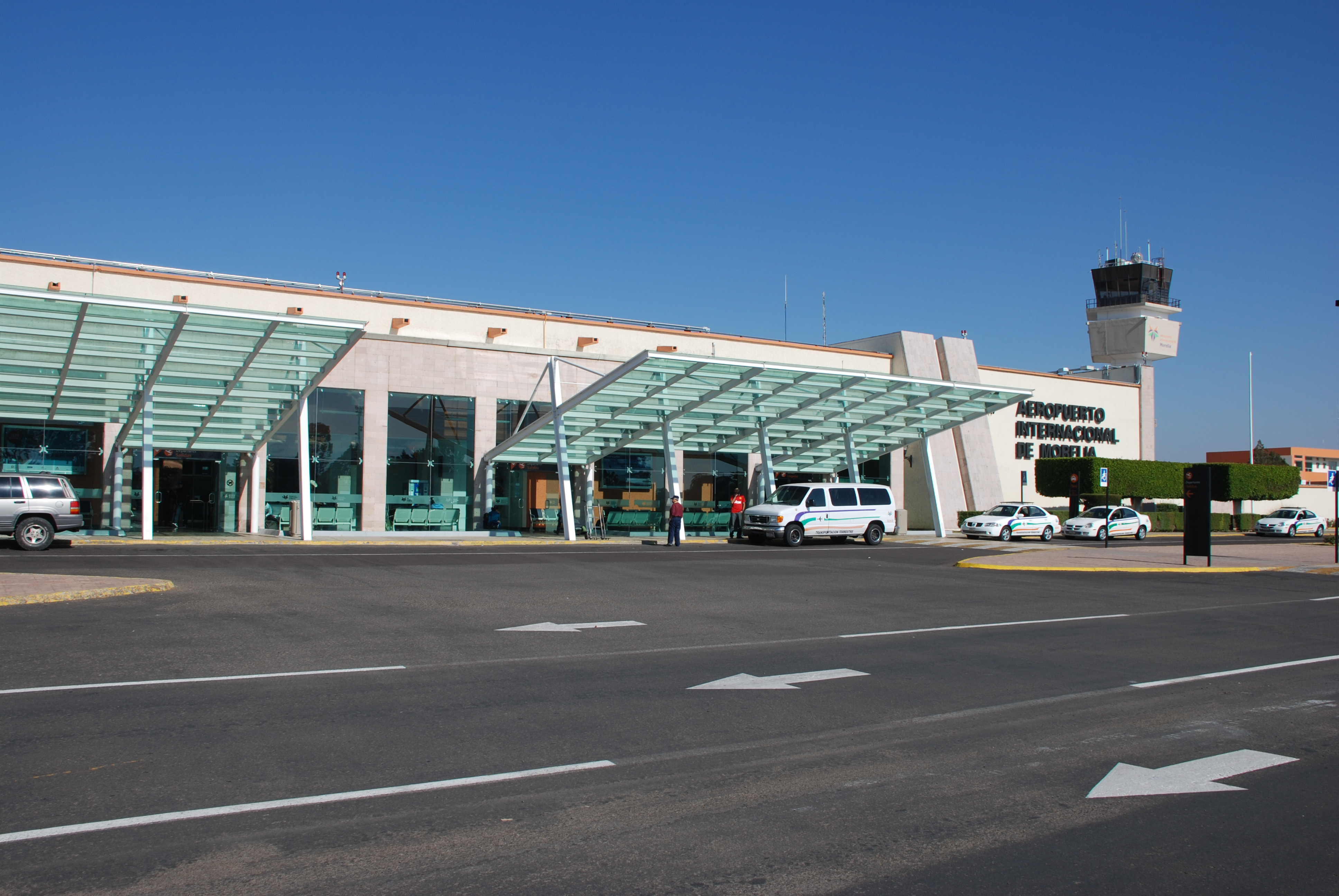 General Francisco J. Mujica International Airport (Morelia International Airport), near Morelia, Michoacan, Mexico